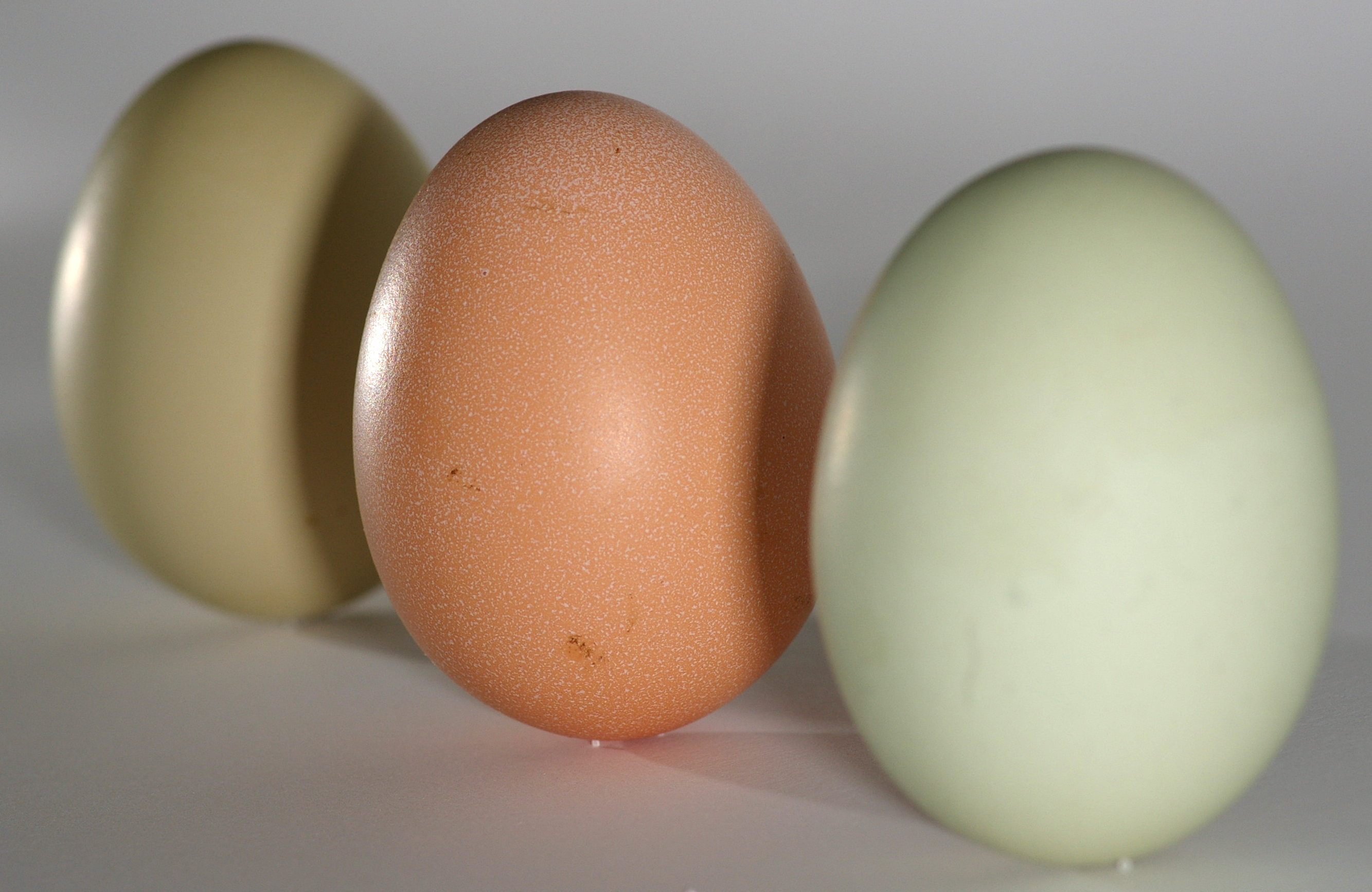 Some green and a brown egg standing on end with the help of some salt.